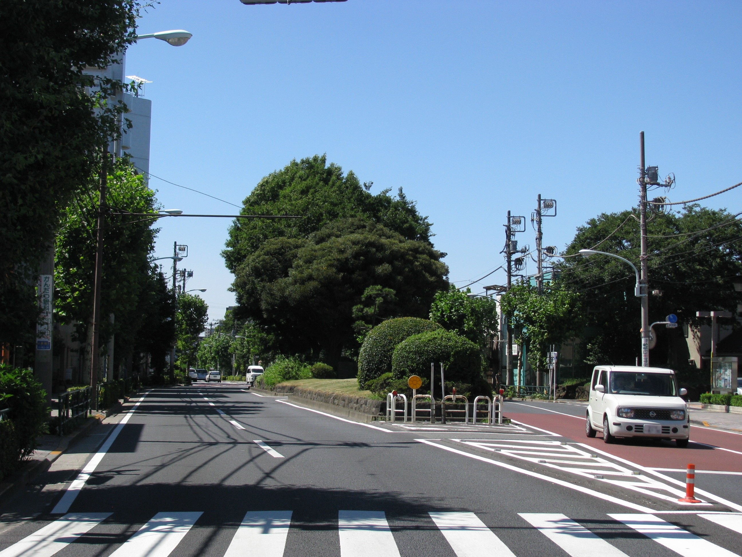 The Tokyo Prefectural Route 455. This location is Nishigahara in Kita, Tokyo, Japan.